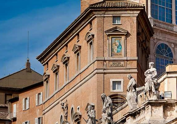 Mater Ecclesiae image at St. Peter's Square